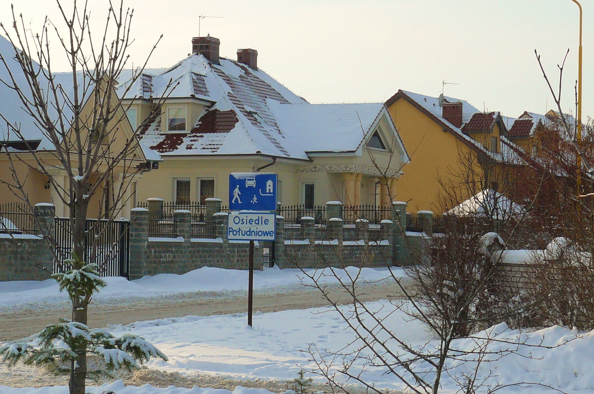 Poludniowe District, Swiebodzin.